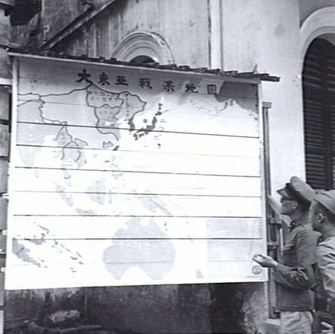 A LARGE WORLD MAP SHADED TO REPRESENT OCCUPIED AREAS, SET UP IN MAIN STREET OF KUCHING.